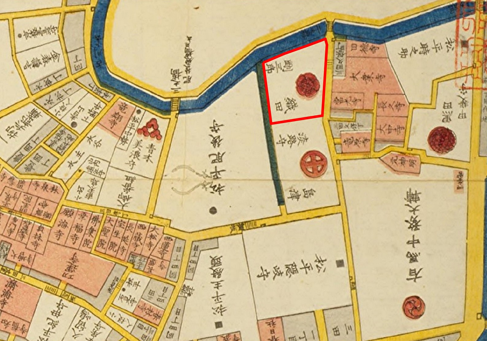 A residence of Oda clan at Edo